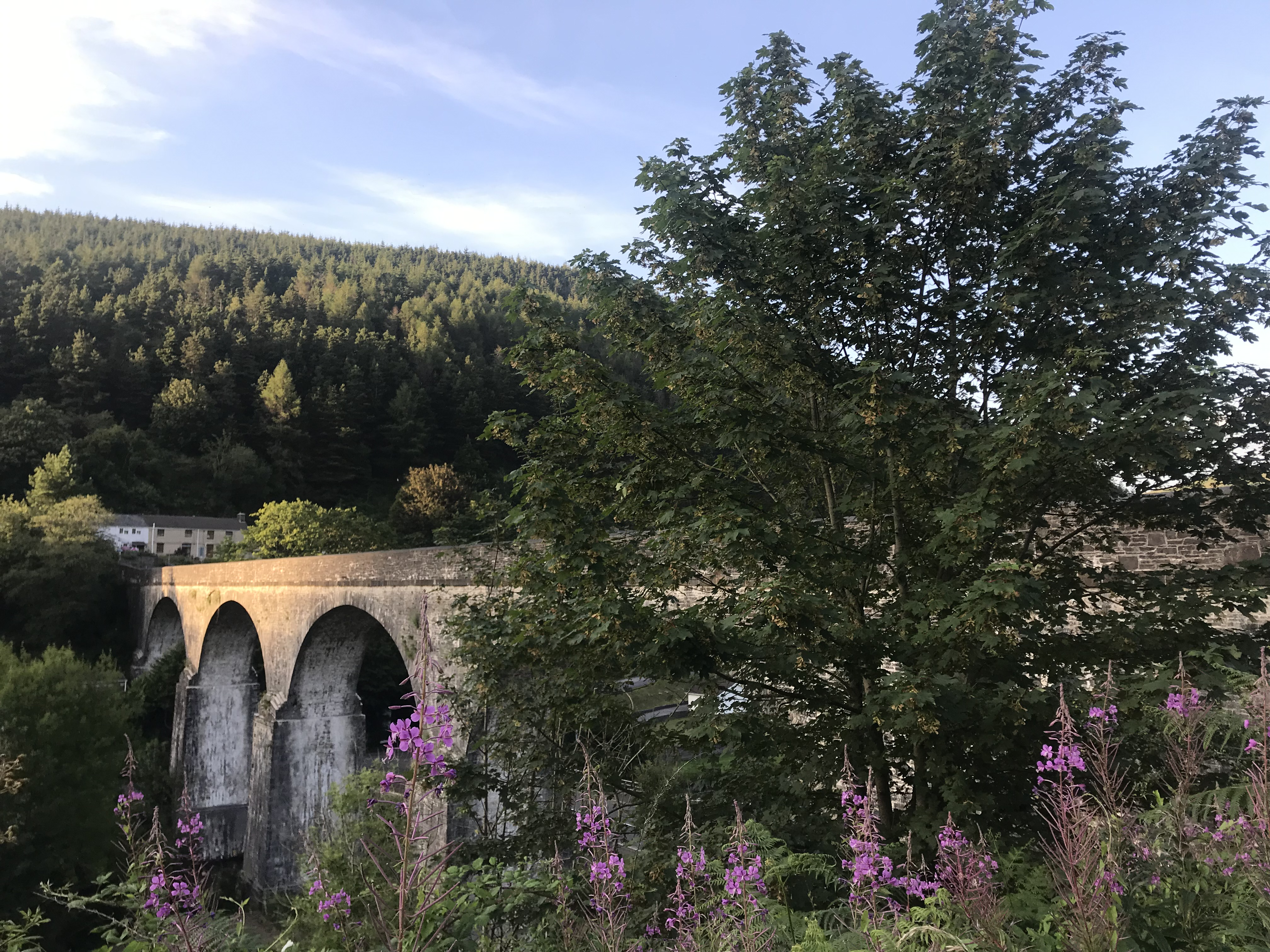 Y Bont Fawr Aquaduct - Pontrhydyfen. Photo taken by Chris McGrath on 28th July 2019 from the short path at the South West end of the Aqueduct at grid SS 7951 9408.